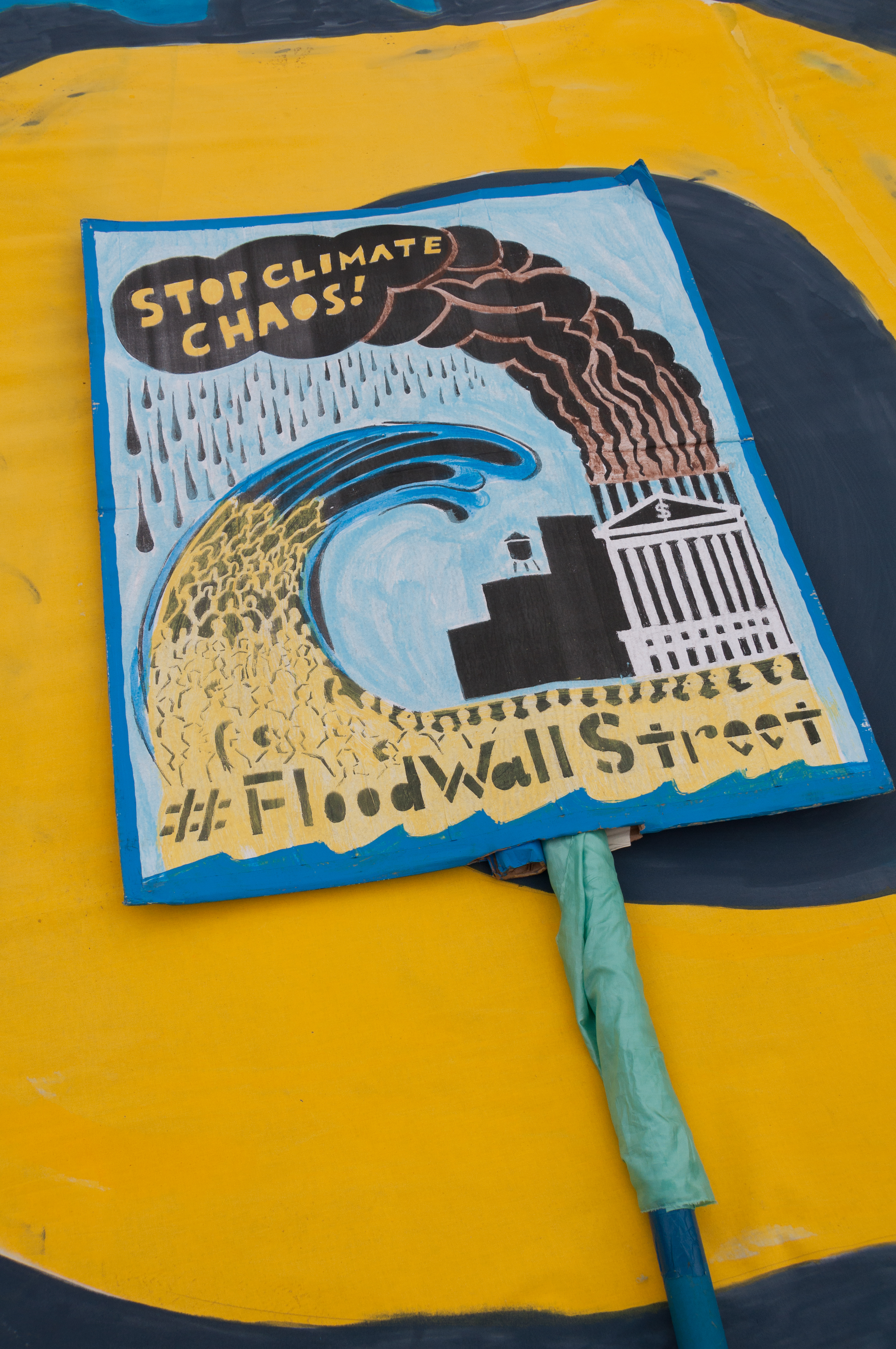 From the People's Climate March rally in New York City, Sept. 21 2014.